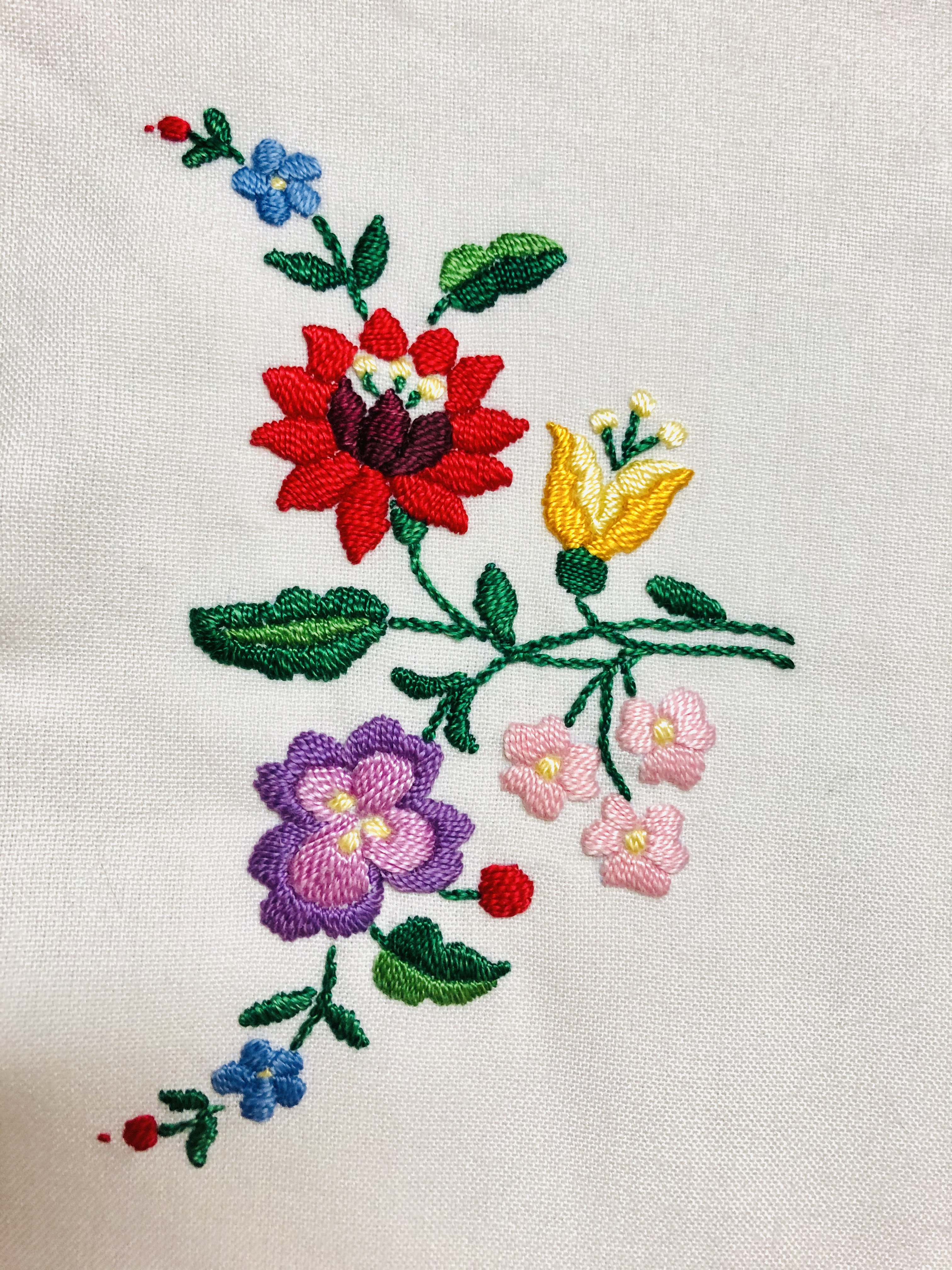 Kalocsa embroidery